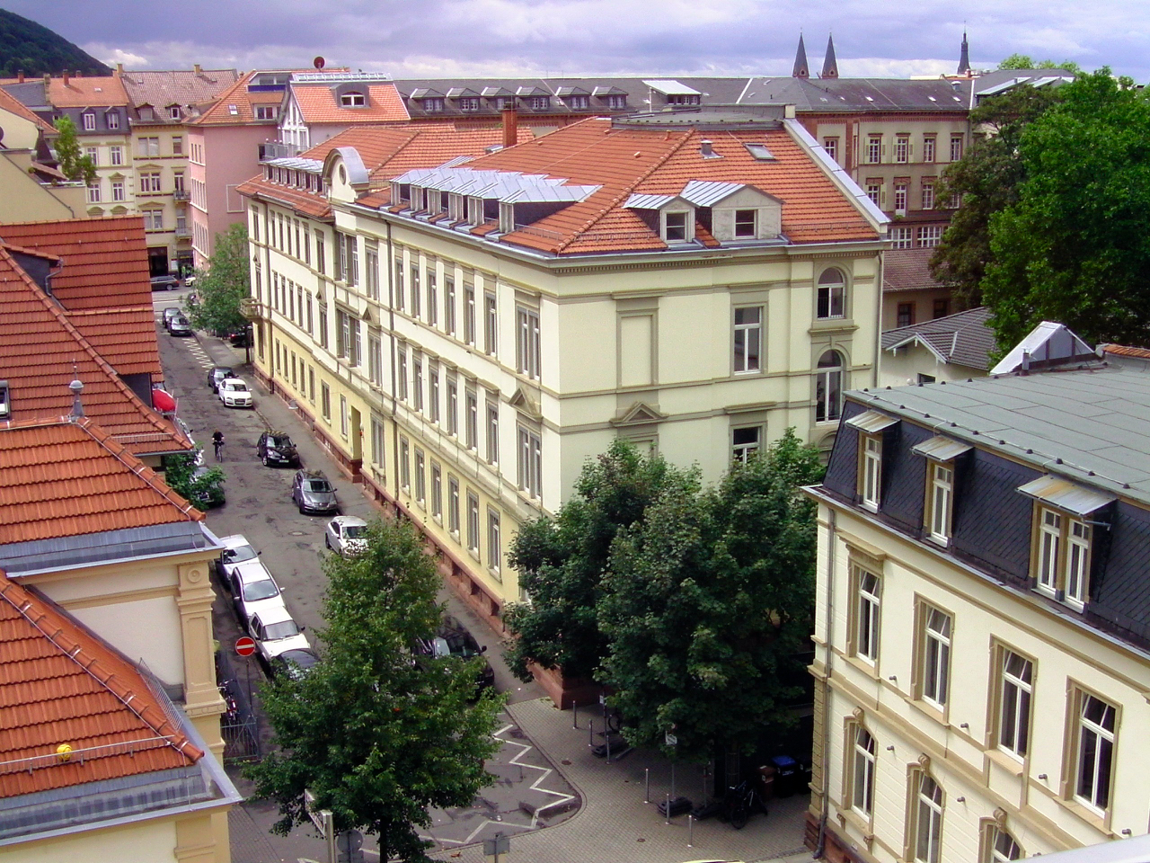 Heidelberg, part of the town called Bergheim